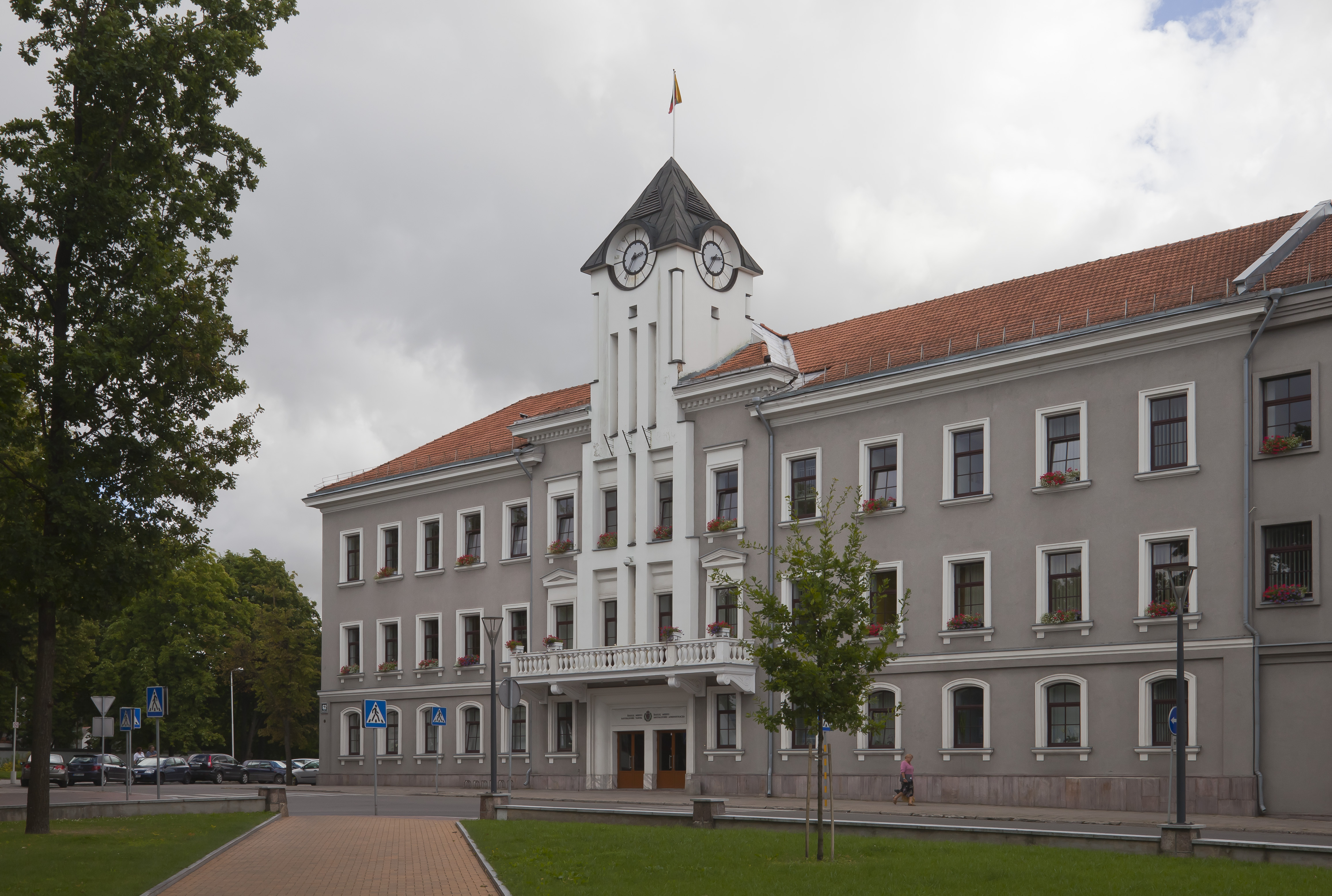 Town hall in Siauliai, Lithuania